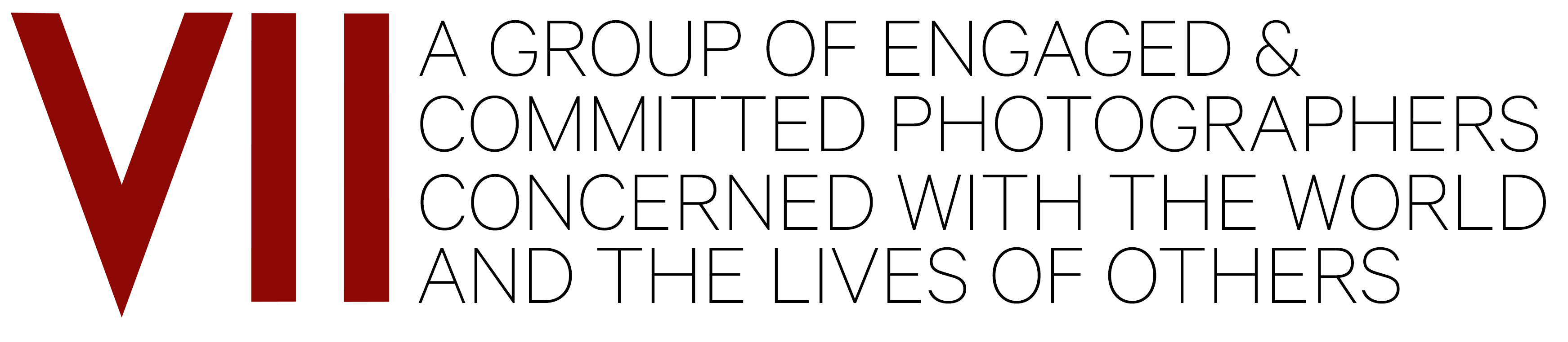 Logo of VII Photo Agency